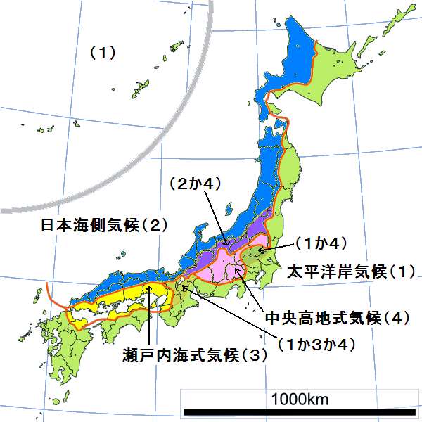 Climate classification of Japan. Pacific Ocean side climate. Sea of Japan side climate. Seto Inland Sea type climate. Central Highlands type climate.